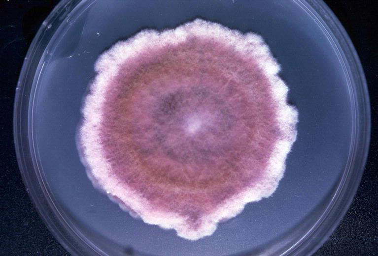 Fusarium wilt (Culture) Fusarium poae (Peck) Wollenw. Petri dish with Fusarium poae growing in culture. Image location: United States